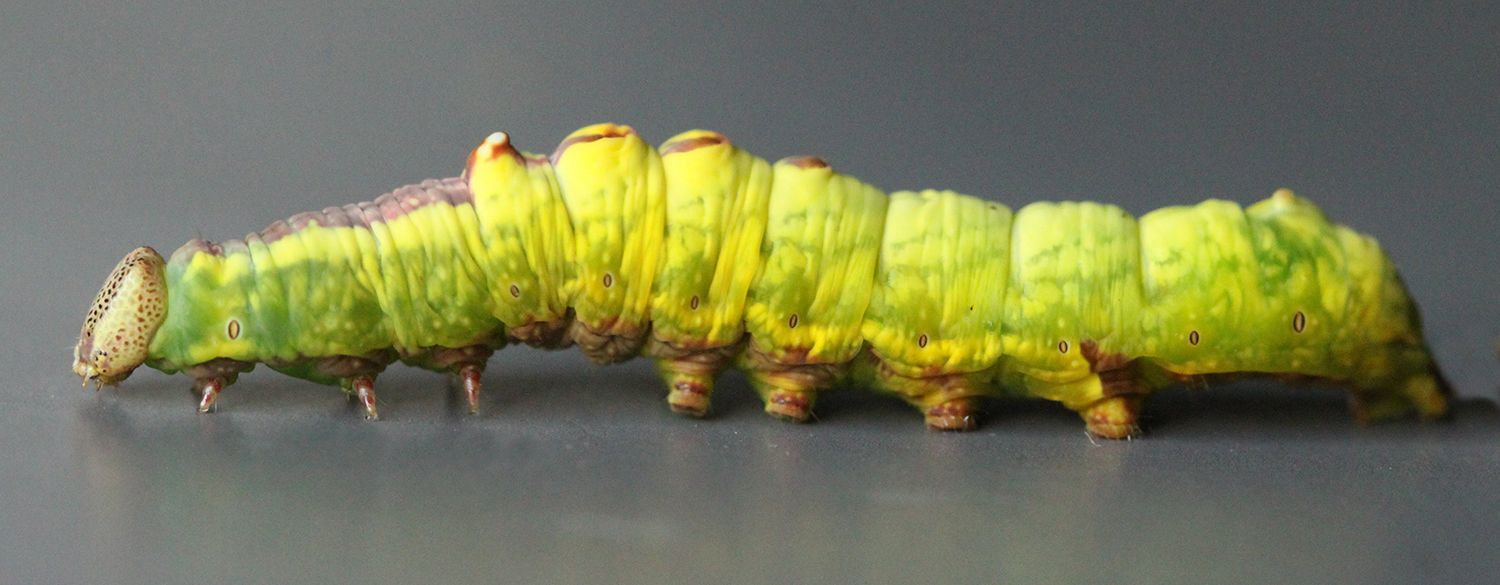 Notodonta dromedarius, Iron Prominent, North Wales, Sept 2013